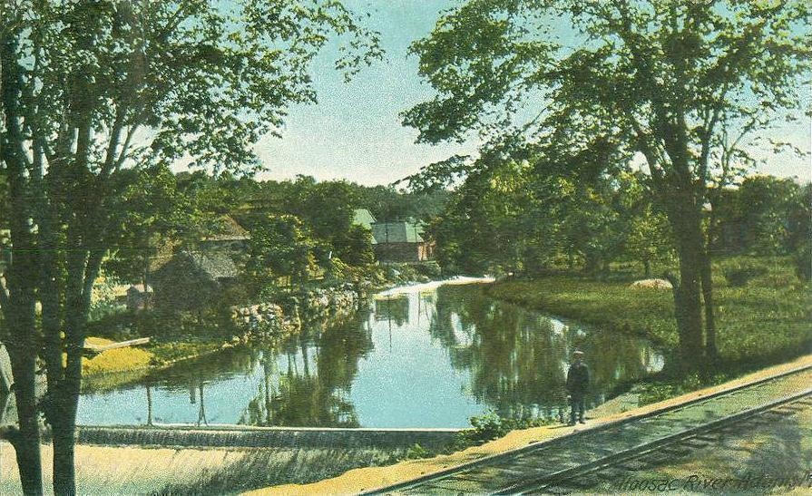 Hoosic River, Adams, MA; from a 1907 postcard.